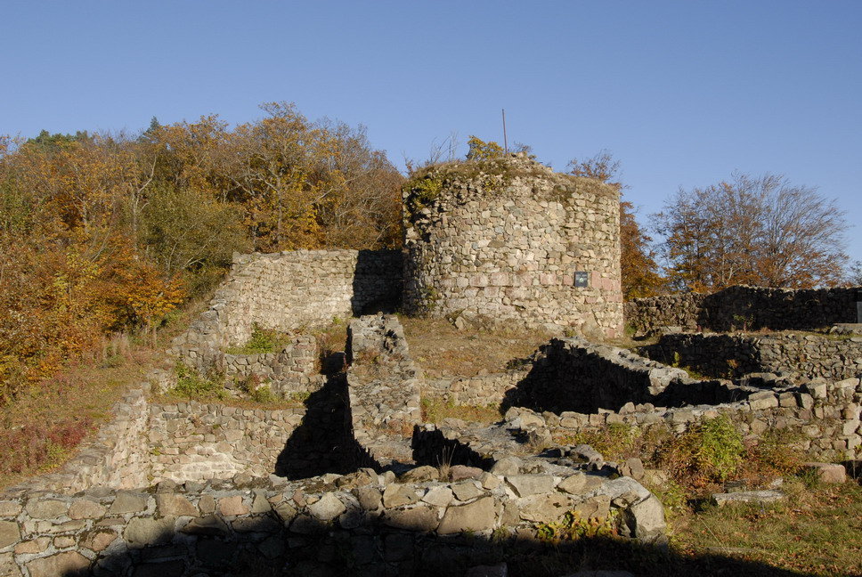 Overview of the castle of Rougemont (France, 90)